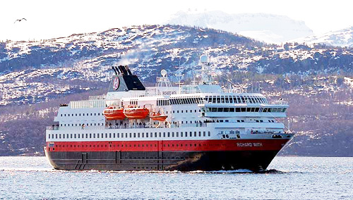 Coastal express ship Richard With outside Finnsnes Norway.